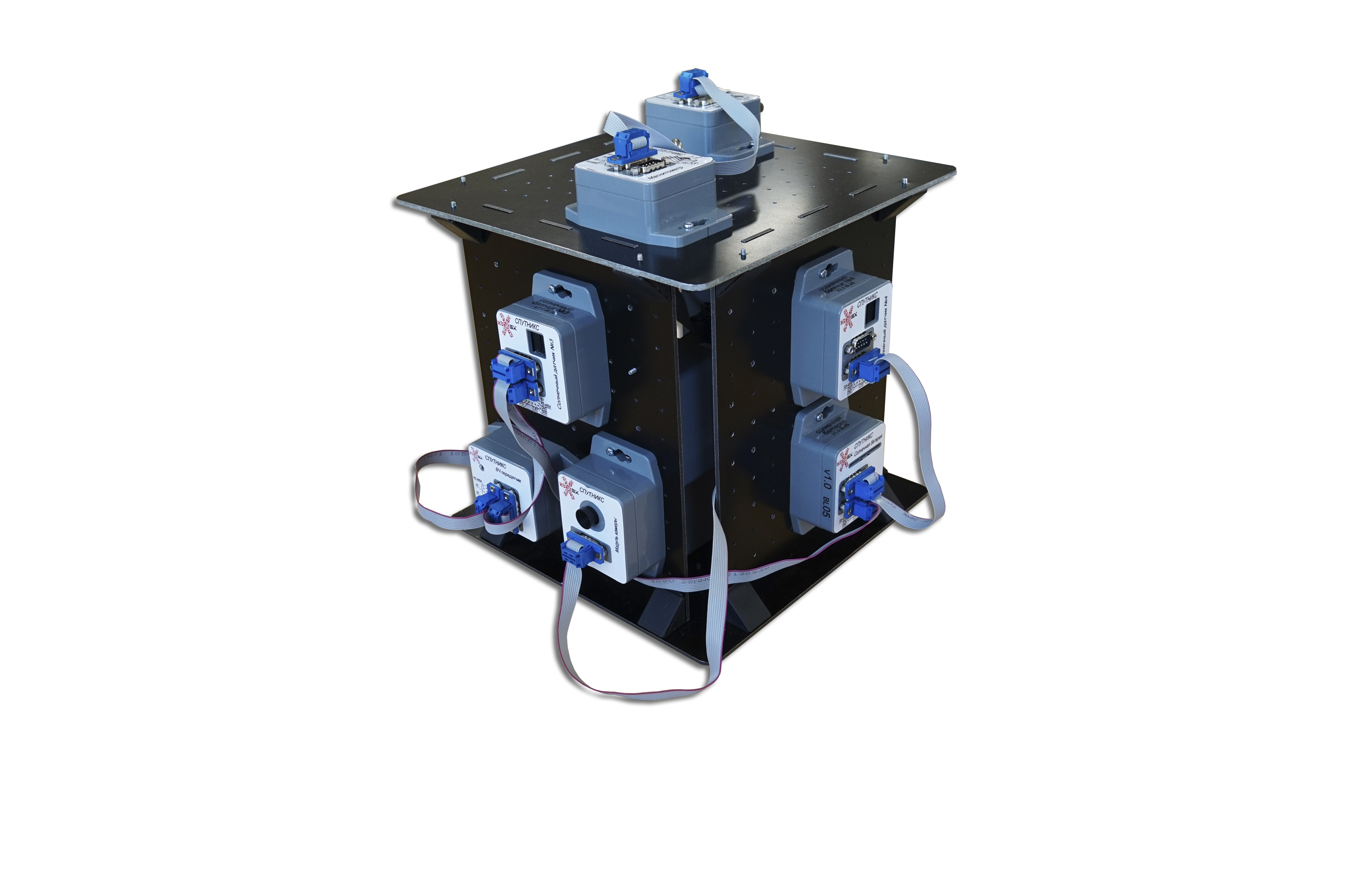 SPUTNIX OrbiCraft